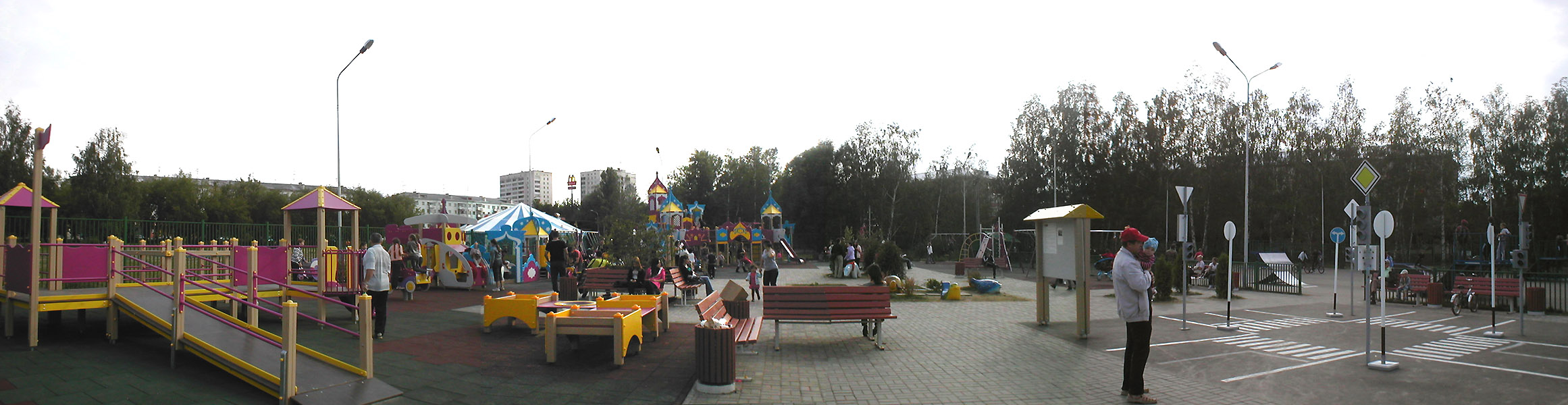 Child playground on Peace square in Derbyshki locality in Kazan